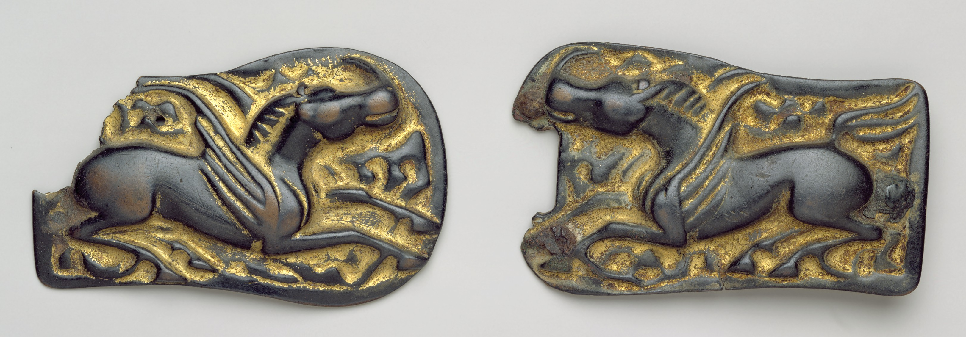 China; Plaque; Metalwork